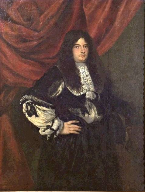 Charles X Gustav of Sweden